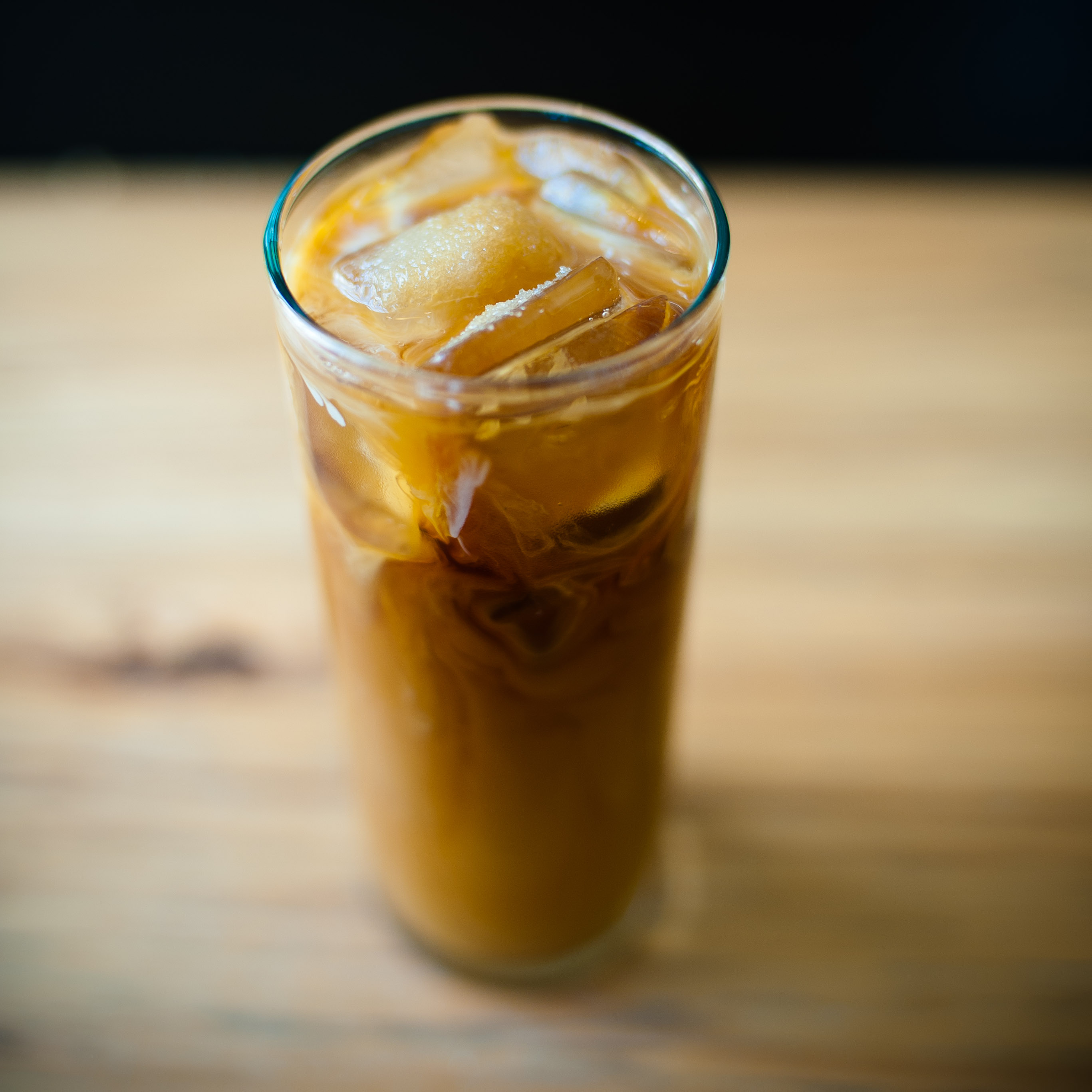 Blue Bottle, Kyoto Style Ice Coffee